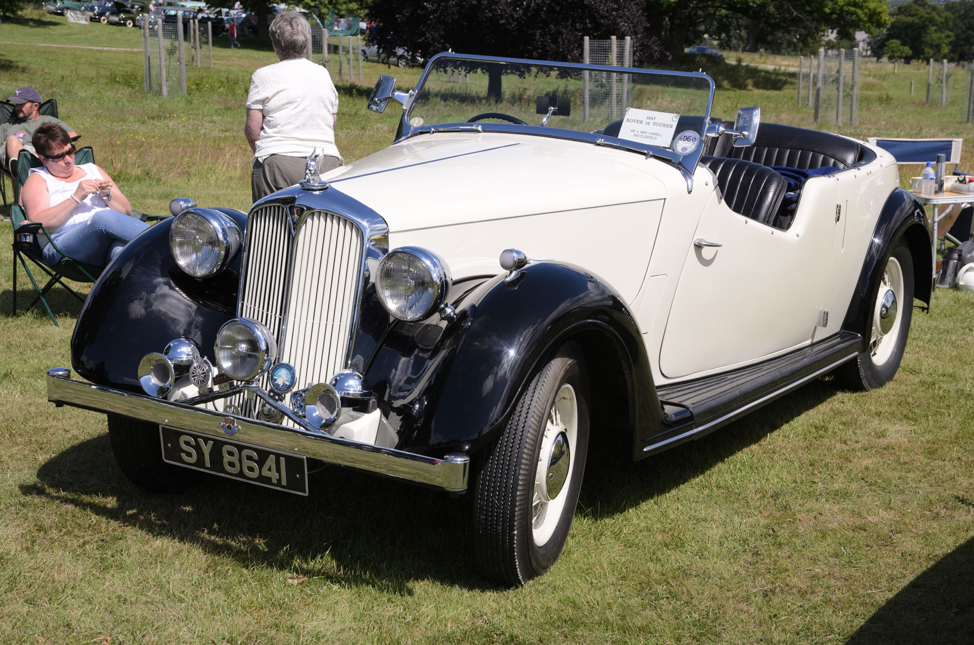 1947 Rover 12 Tourer Bodelwyddan Classic Car Show 19/07/2015